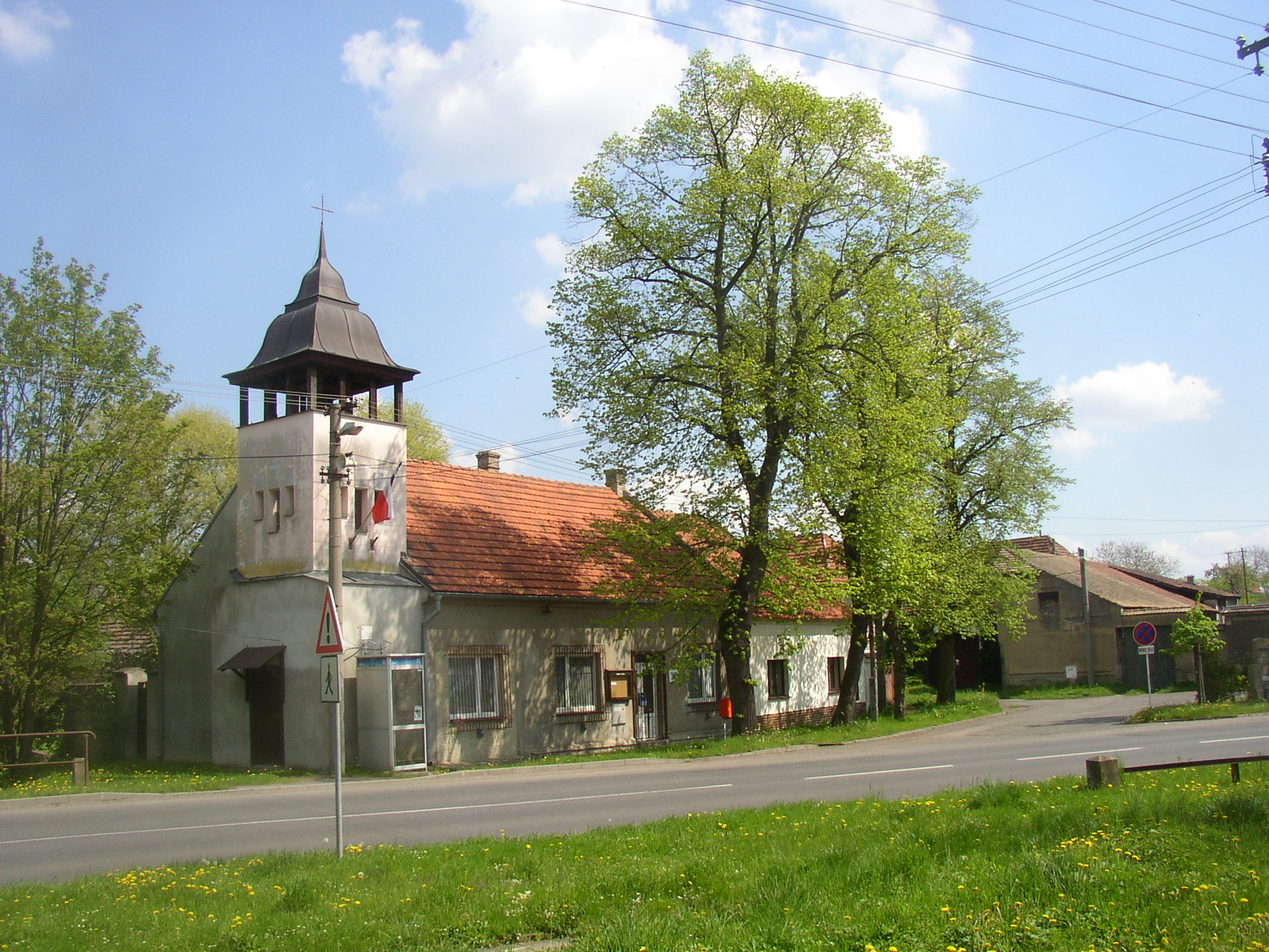 Malé Přítočno, Kladno District, Czech Republic. Building of municipal administration in centre of the village.